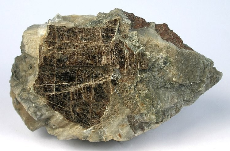 Clintonite, Spinel Locality: Amity, Town of Warwick, Orange County, New York, USA (Locality at ) Size: 9.3 x 5.7 x 3.8 cm. Clintonite is a rare Mica Group mineral species. This fine, old-time specimen is from the New York Type Locality of Amity and features a large, well-placed, pearlescent, brown plate of clintonite set in orthoclase-rich matrix. A bonus on this classic specimen are the two broken, octahedral spinel crystals embedded in the side of the matrix. Ex. Mullane Collection.